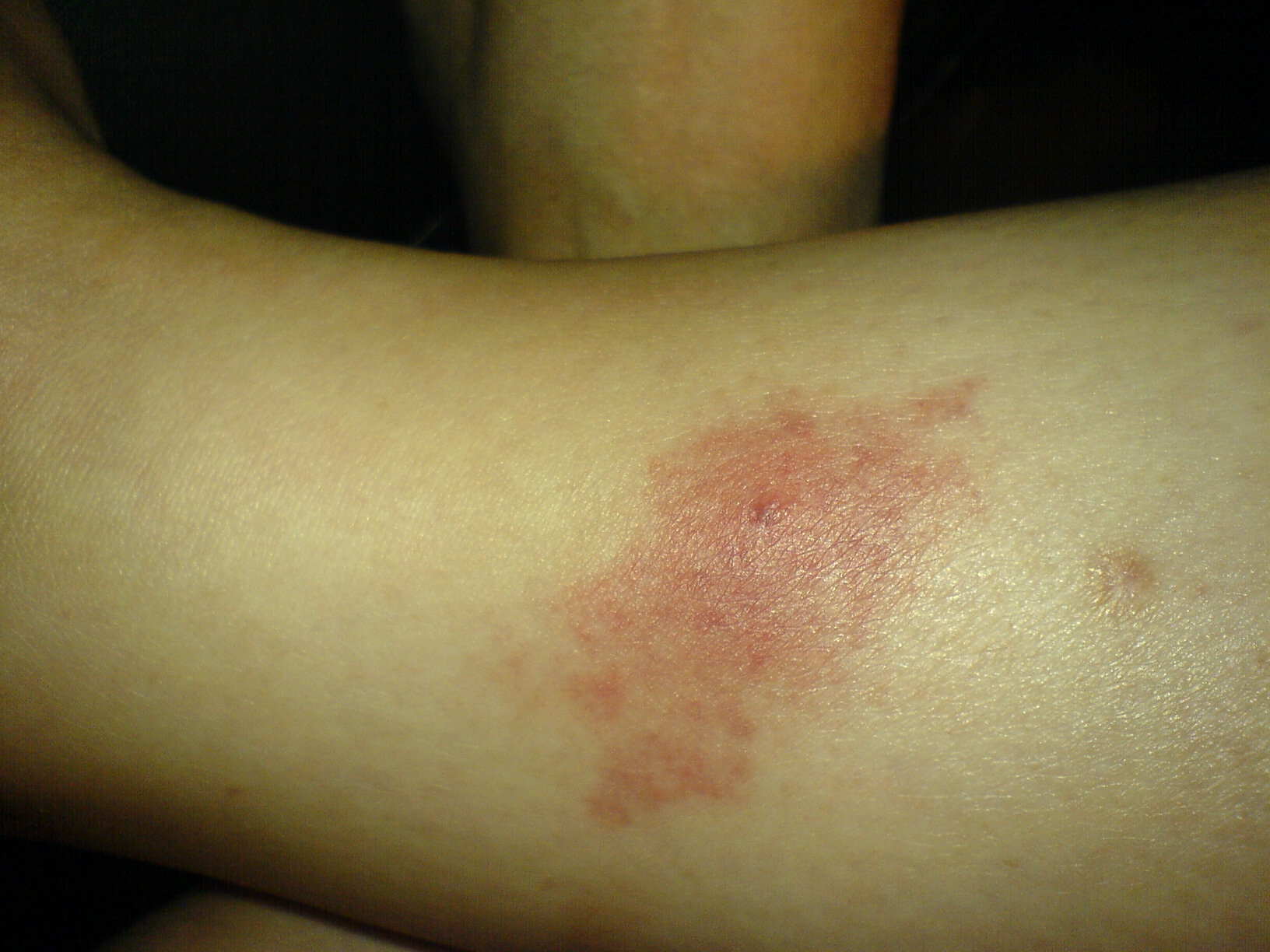 Sandfly bite from Egyptian Sandfly.